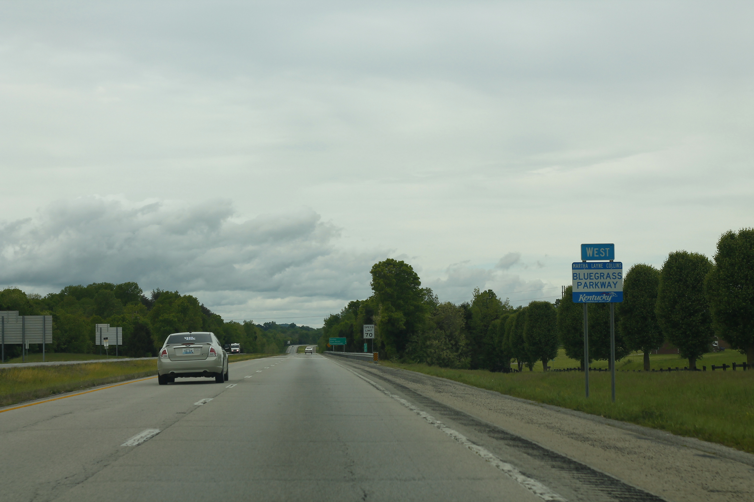 Westbound Bluegrass Parkway at the 20 mile marker just south of Bardstown, Kentucky, United States.